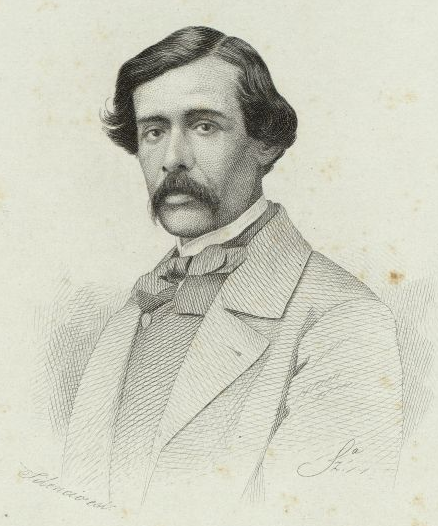 Tomás José da Anunciação (1818-1879)